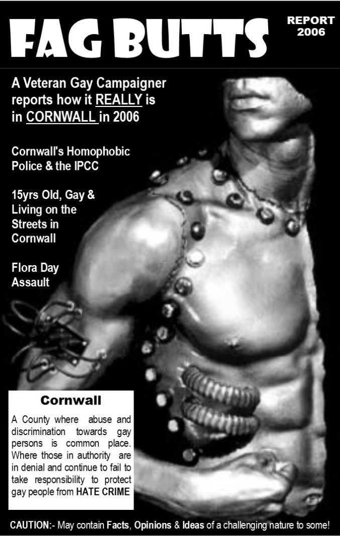 Front cover of Fagbutts, a local gay community newsletter started in 2006 in Cornwall, UK by LGBT equality campaigner Malcolm Lidbury. Devon & Cornwall police threatened legal action if the gay community newsletter continued to be published. It ceased publication in 2007. 2015 Malcolm Lidbury as a CHILD Sex Abuse Survivor having been in a pedophile ring when he was a child from age 6-10yrs submitted witness testimony to the UK statutory CSA Inquiry set up by Home Secretary Theresa May 'Goddard Inquiry'. So brutal & abusive had been his experience as a gay man been of homophobic police over many years, he placed his witness testimony online out of complete distrust of the authorities